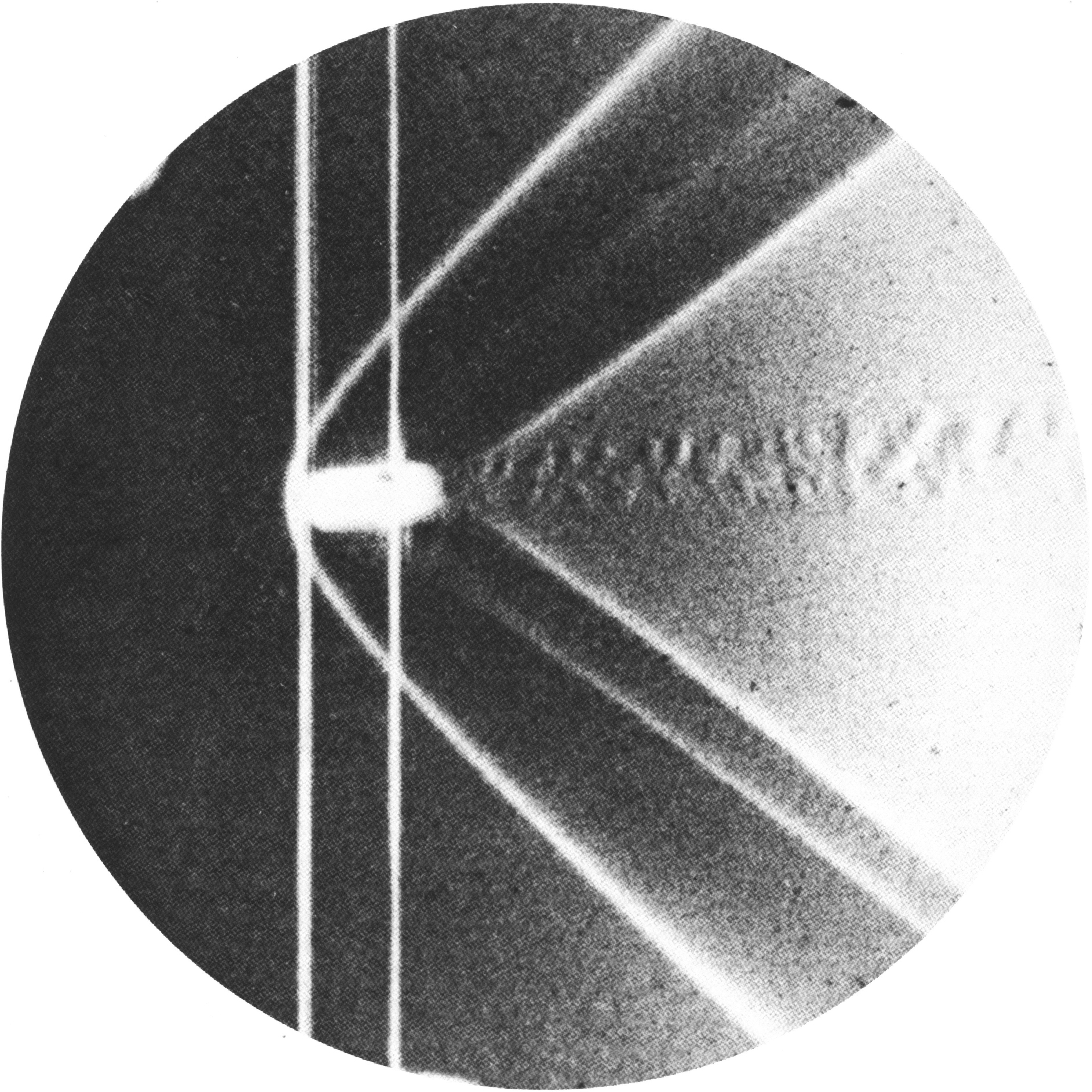 This photo was taken by physicist Ernst Mach in 1888 in Prague, using Schlieren Photography on a 5 mm-diameter negative. It depicts the waves around a supersonic brass bullet.